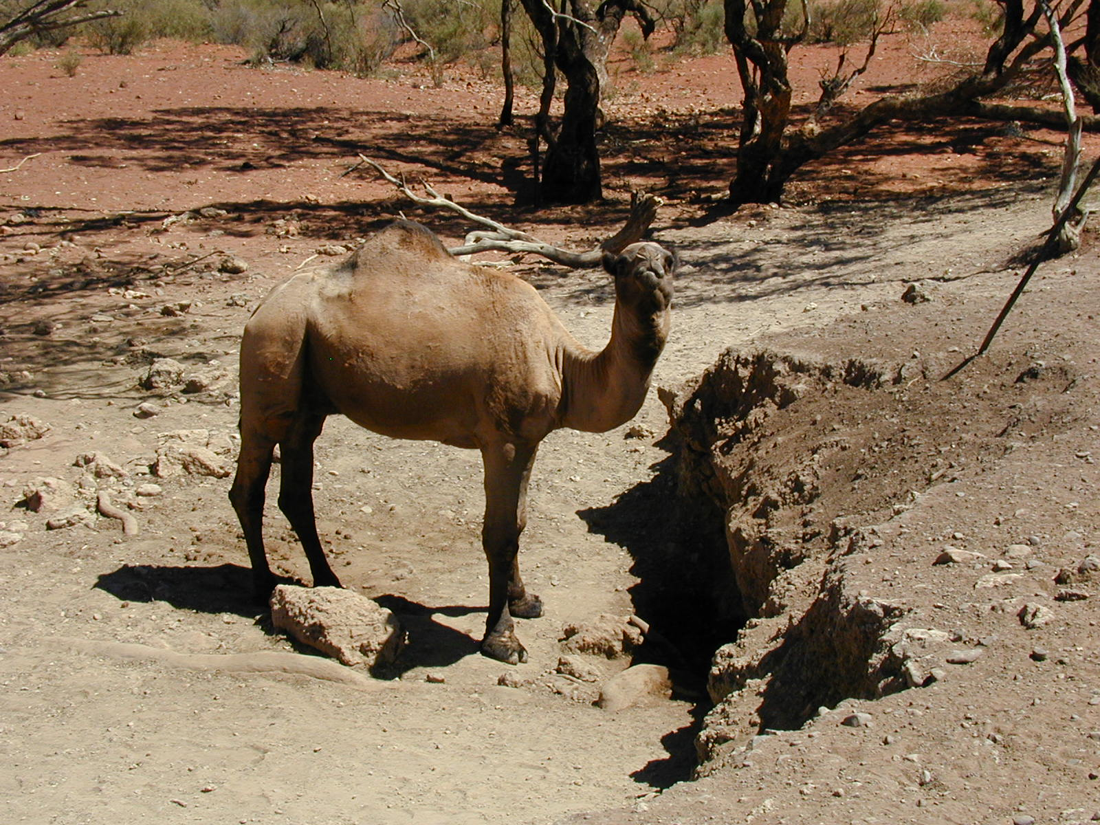 Camel at wilbia - severe degradation